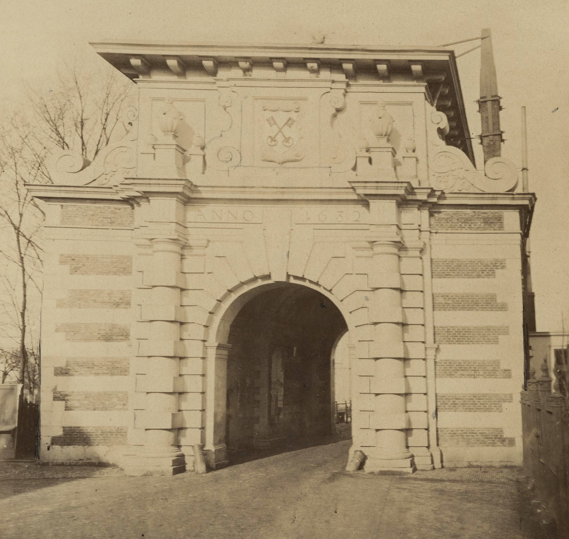 Photograph of the Leiden Rijnsburgerpoort city gate by Jan Goedeljee.